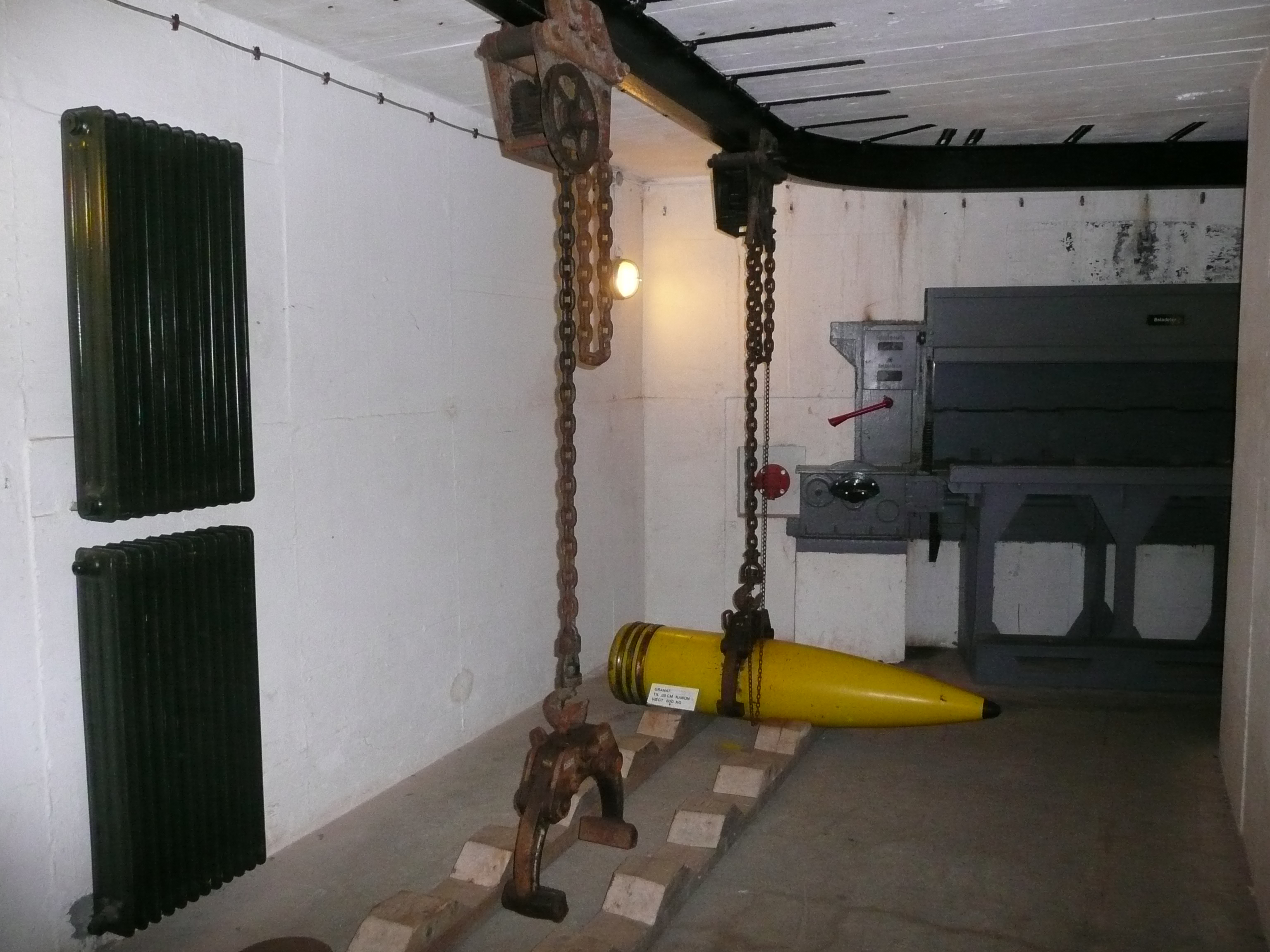 Shell for German 38 cm SK C/34 gun from World War II at Hanstholm fortress, Denmark.